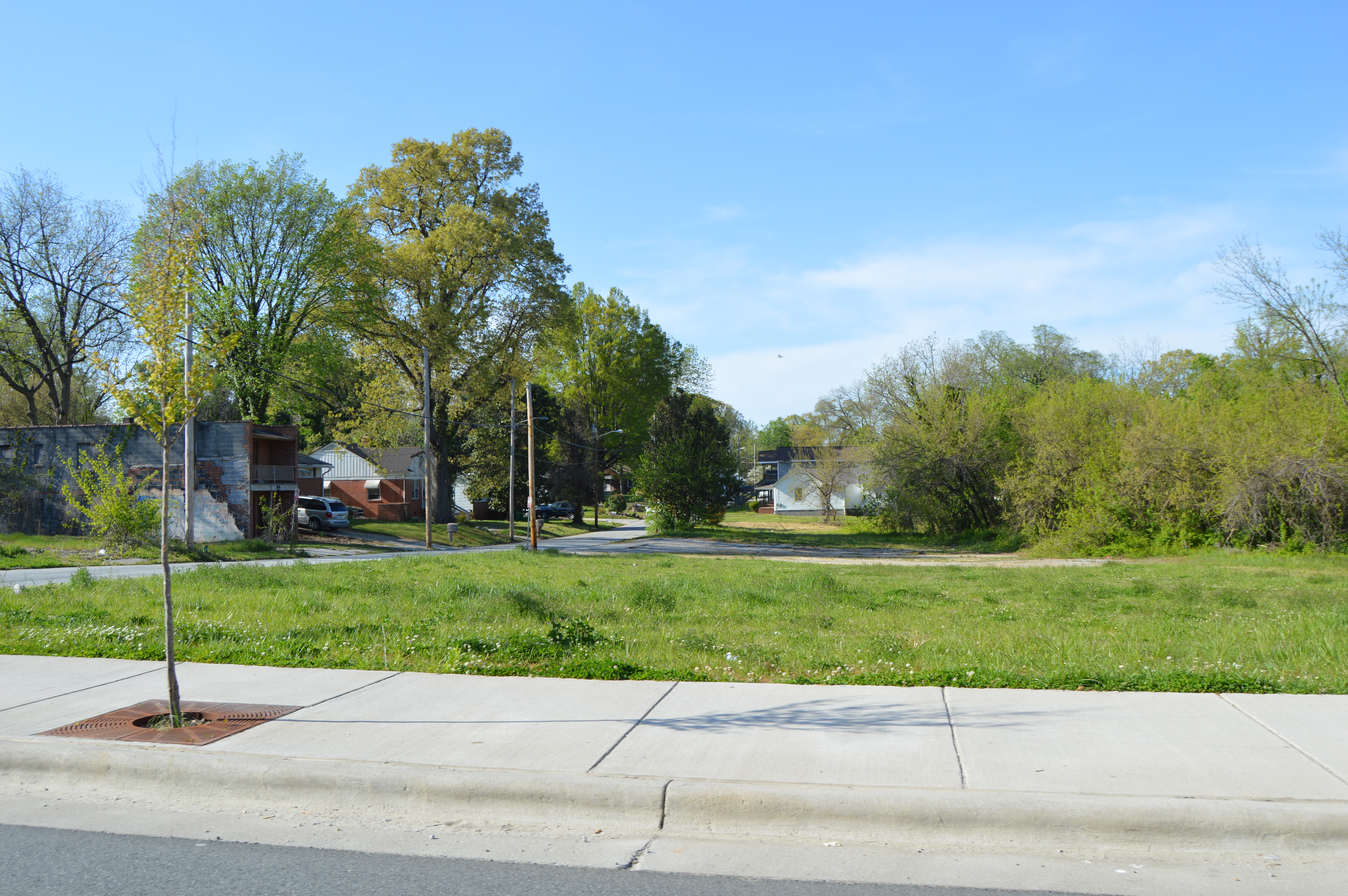 Site of the Kilby Hotel, which formerly sat at 701 E. Washington Street in High Point, North Carolina, United States. Listed on the National Register of Historic Places in 2009, it has been destroyed, but the landmark status yet remains.